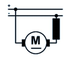 Motor electrico con excitación serie